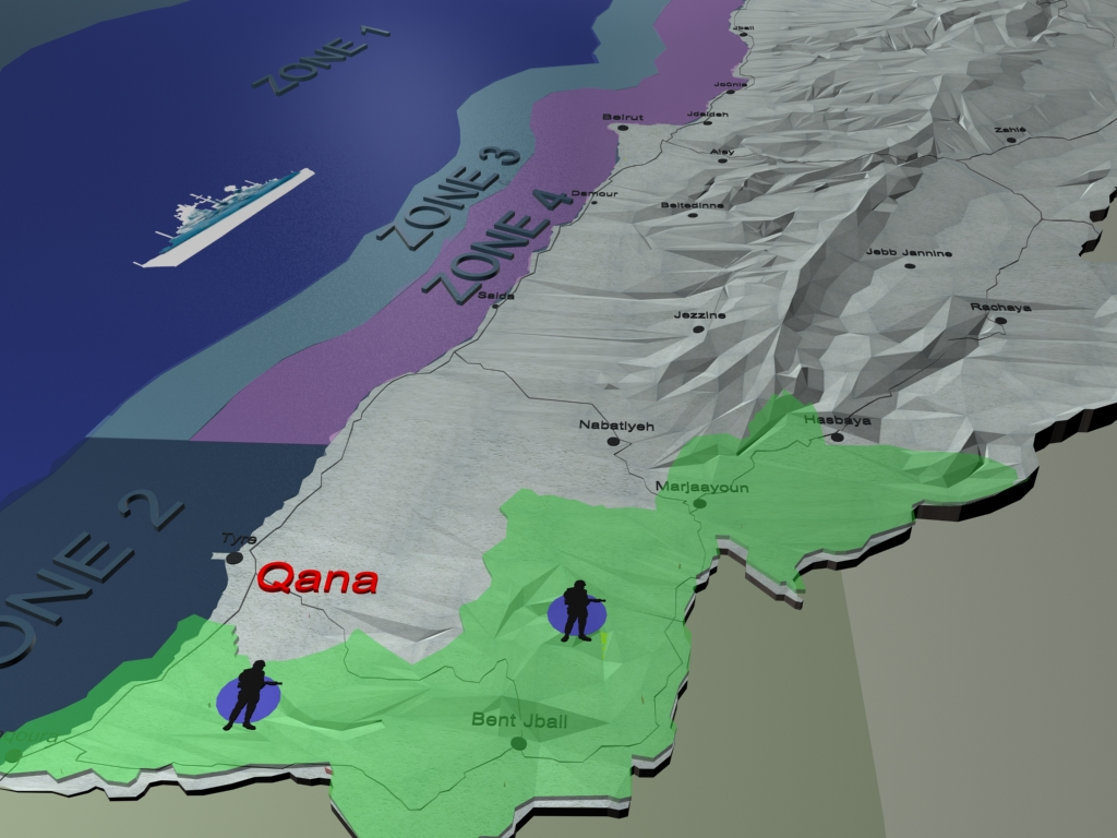 Lebanon history UNIFIL-Zone